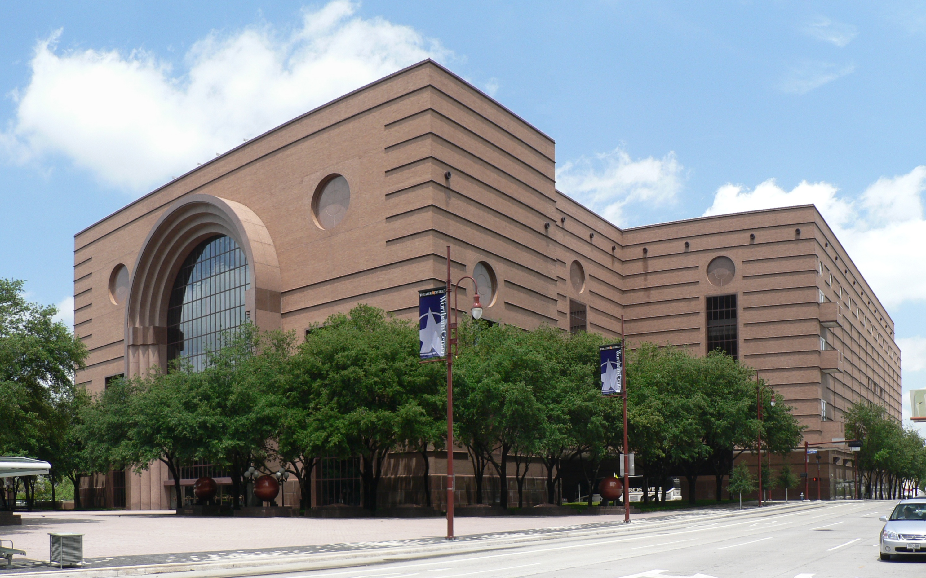 Wortham Theater Center in the Theater District of Downtown HoustonWortham Center